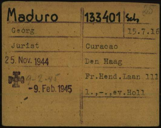 Registration card of George Maduro as a prisoner at Dachau Nazi Concentration Camp. The stamped cross signals the day of his death. Maduro's card is not marked with the usual “J” identifying Jews, which may mean the Nazis were not aware of his Jewish ancestry